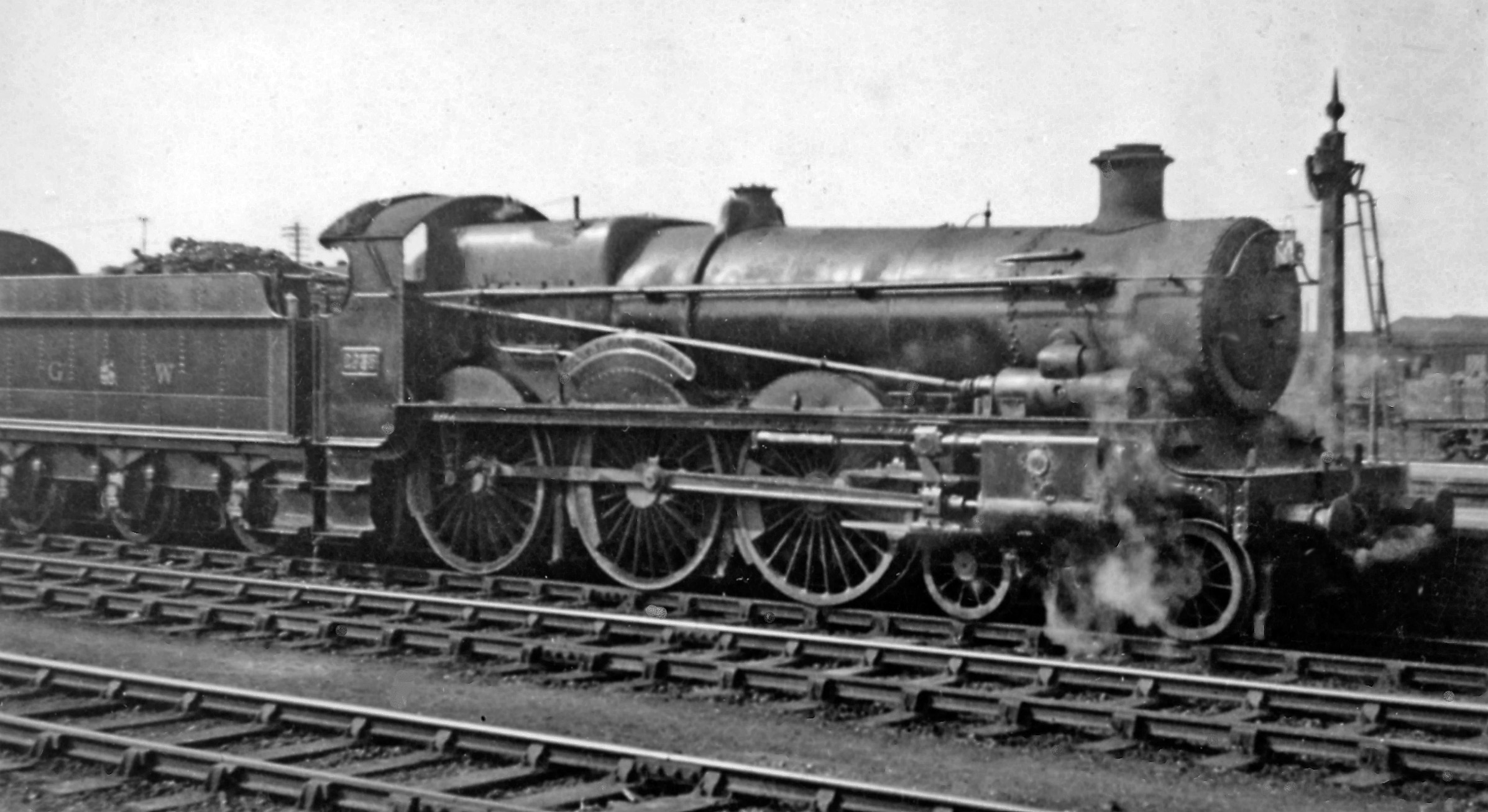 The unique GWR 'Saint' 4-6-0 with poppet valves. One of the 1911 series of Churchward 'Saint' 4-6-0's, No. 2935 'Caynham Court' was rebuilt in 5/31 experimentally with rotary-cam poppet valves and retained these until withdrawn in 12/48. Here in 1946 it is waiting to leave Swindon with the 13.23 stopping train to Paddington. [One of my earliest photographs].